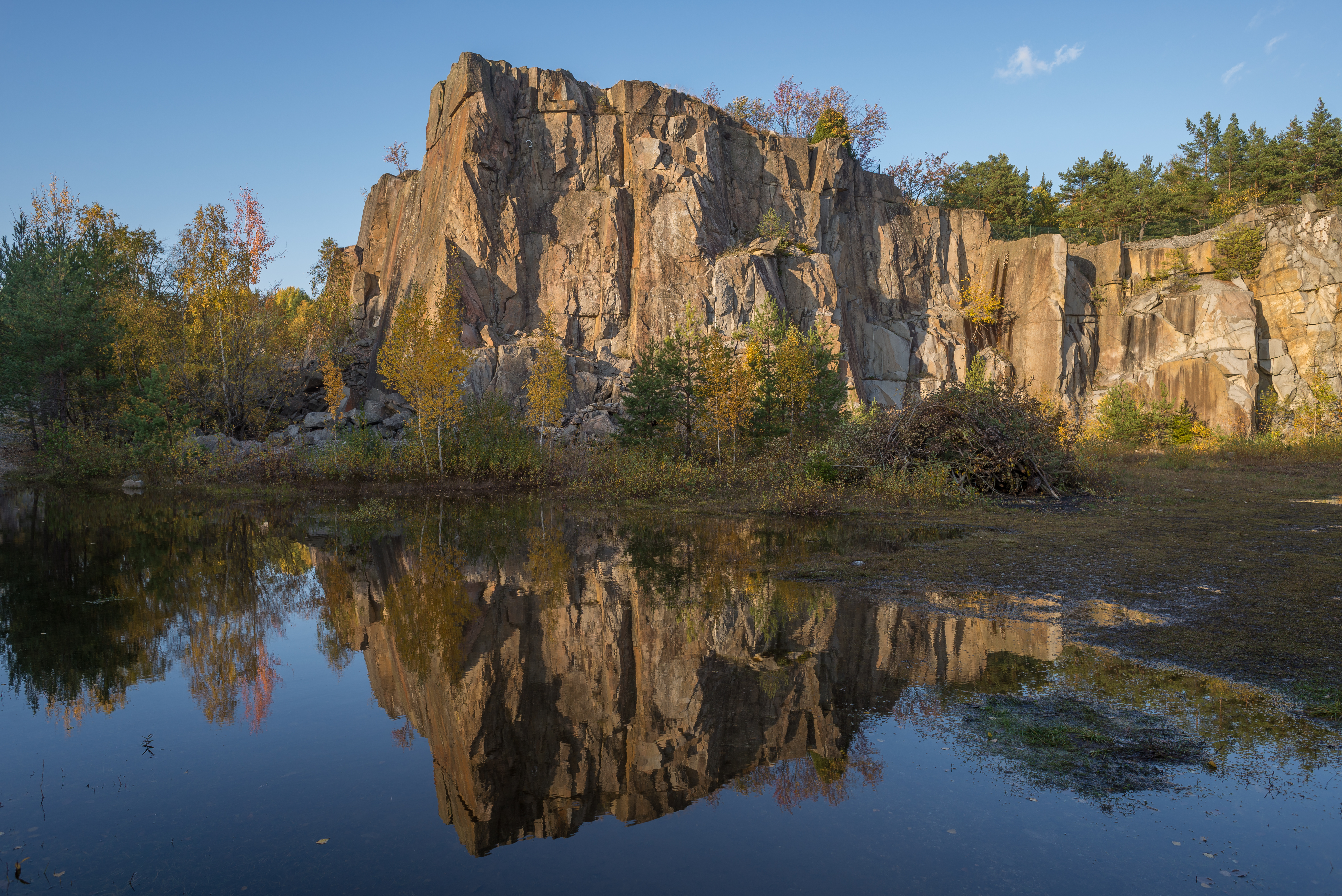 The former Stenhamra stenbrott (quarry) in Stenhamra, Ekerö Municipality, Stockholm County (Sweden). The quarry was in use from 1884 to 1937 and was owned by Stockholm municipality. Stenhamra was in the beginning the main supplier of paving-stones for Stockholm city.